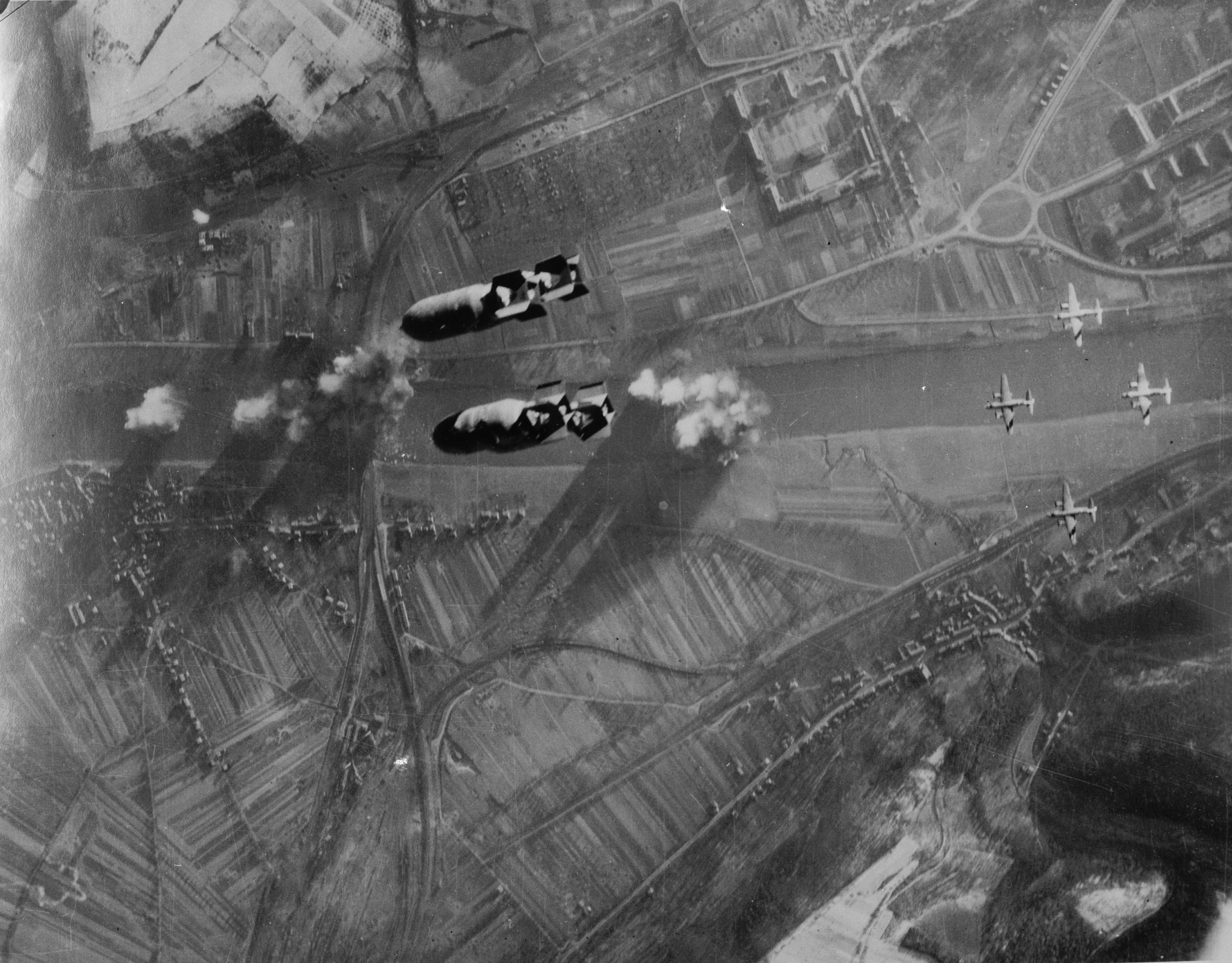 View of an attack of USAAF Martin B-26 Marauder bombers on the railroad bridge across the Moselle river at Trier-Pfalzel, Rhineland-Palatinate, Germany. The photo was probably taken on 24 December 1944, when 69 B-26s of the 323rd and 394th Bomb Group attacked the bridge with 122.3 t of HE bombs. The attack took place between 1330 and 1345hrs, and the sun in the south throws the shadows of the tail fins on the left wings of the B-26s. On the right bank of the Moselle are the Verteilerkreis roundabaout, Nell's Park, and the barracks on Dasbach St. and Herzogenbuscher St. On the left bank are Trier-Biewer (right) and Trier-Pfalzel (left) and the Ehrang rail yard. Snow is visible on the hills.